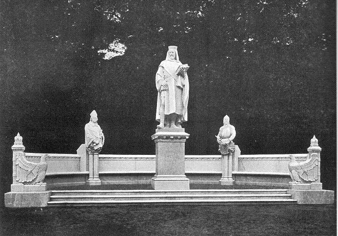 Monument group in the former Siegesallee in Berlin commemorating Brandenburg’s Margrave and Elector Charles IV, Holy Roman Emperor (1316–1378). The bust on the left commemorates the Archbishop of Magdeburg Dietrich Kagelwit (also Dietrich von Portitz), and the bust on the right Archbishopric-Hauptmann Claus von Bismarck from the Bismarck family. Sculptor: Ludwig Cauer. The sculpture was unveiled on 26 August 1899.